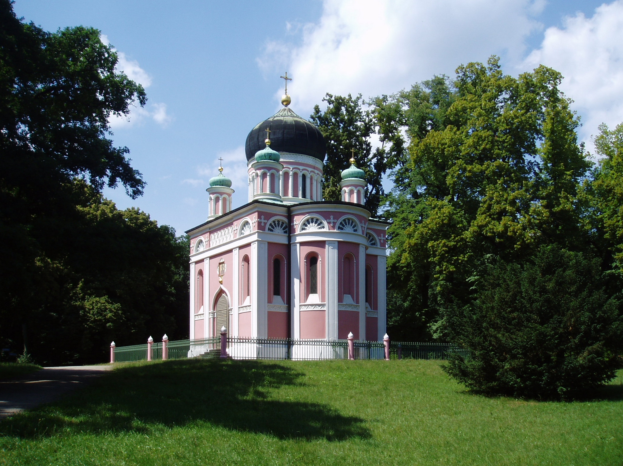 Alexander-Newski-Gedächtniskirche, south east side with apse, Potsdam, Germany